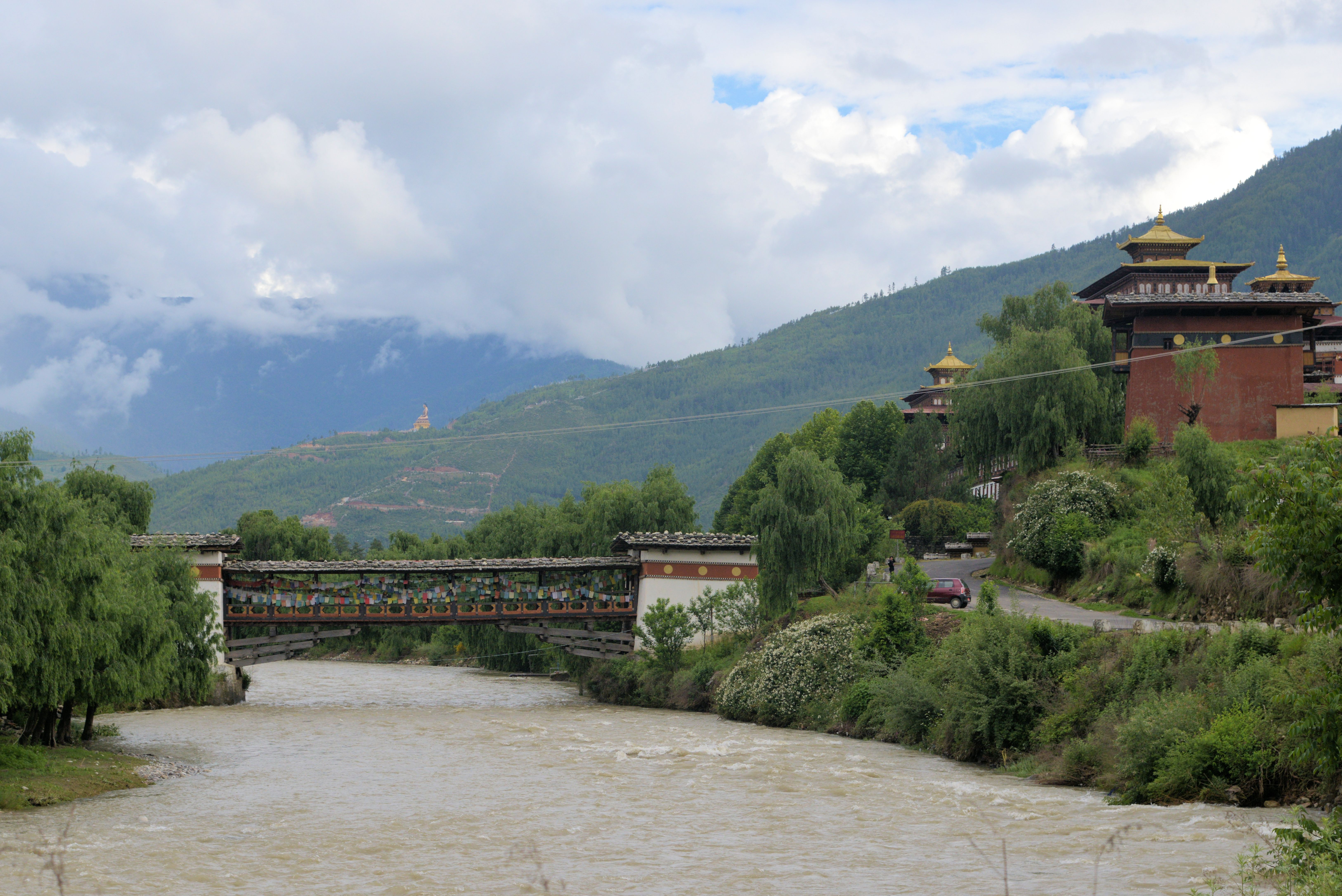 Covered cantilever footbridge over the Wangchu river, located near the north gate of Tashichodzong, Thimphu. Bhutan. Taken from Hejo, looking south